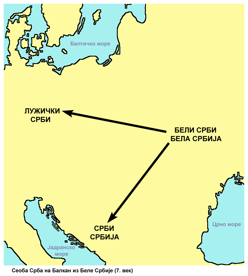 Migration of Serbs to the Balkans from White Serbia (7th century).